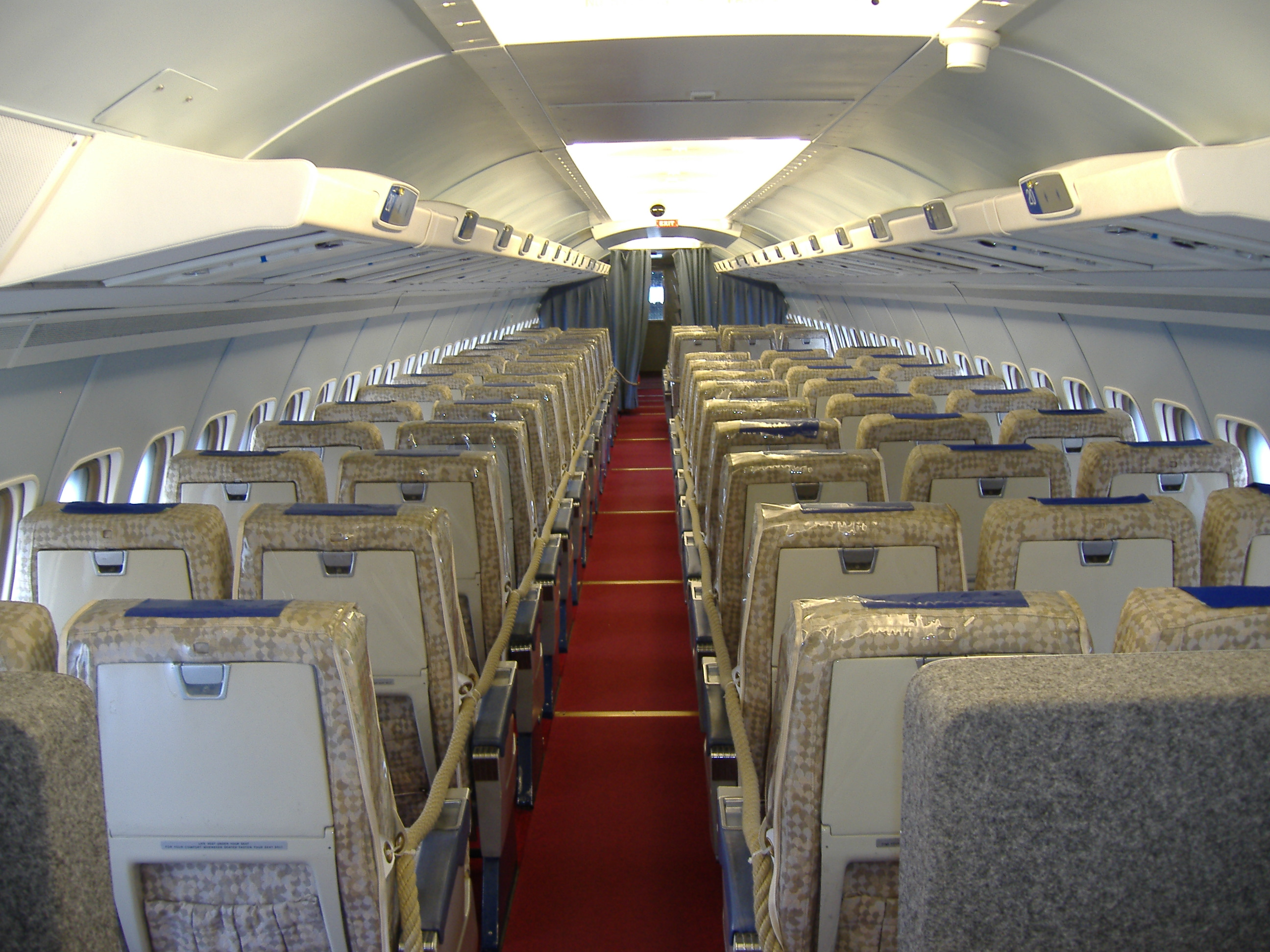 Interior of a Convair 990 operated by Swissair now on public display in the Swiss transportation museum, the Verkehrshaus in Luzern. Author: Prijs